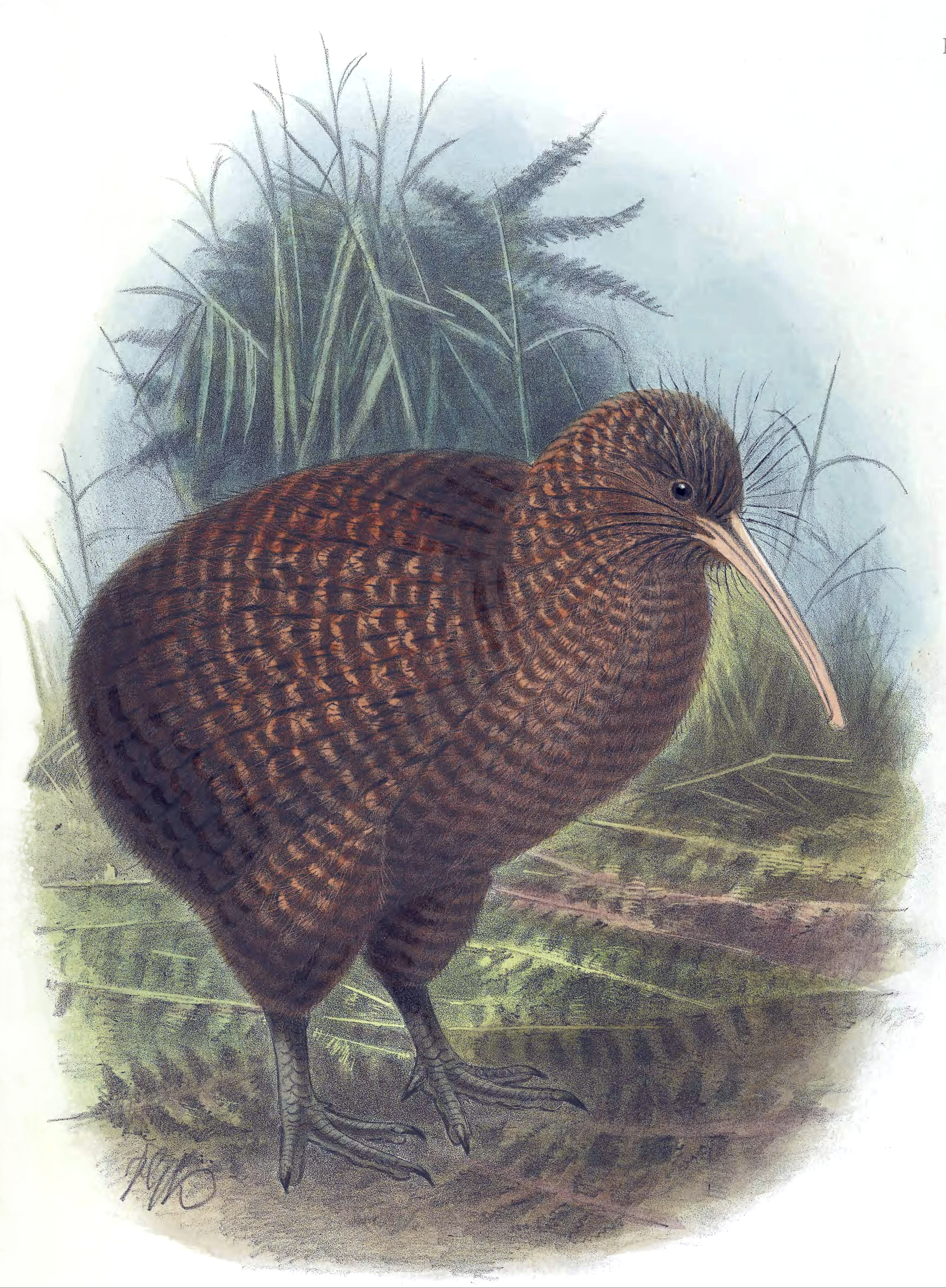 Apteryx haastii (Great Spotted Kiwi)